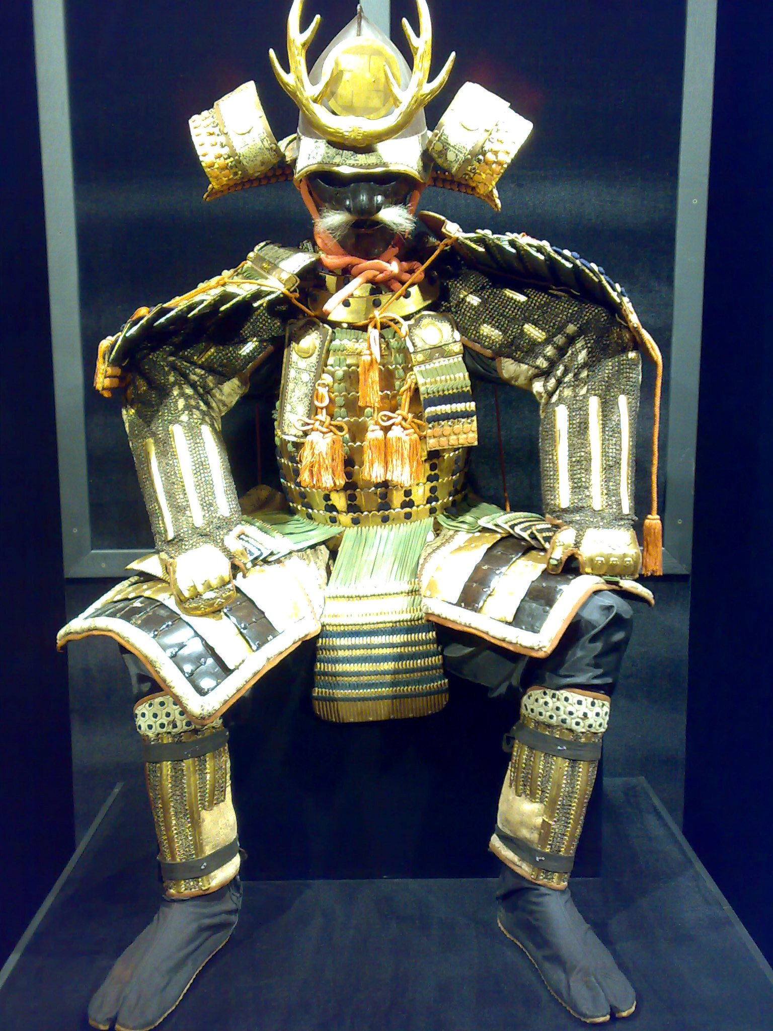 took this image using my mobile on 20 September, 2008. Tosei Gusoku (suit of armour) of the Hatisuka Clan. Japanese Culture Festival, New Tretyakov Gallery, Moscow.